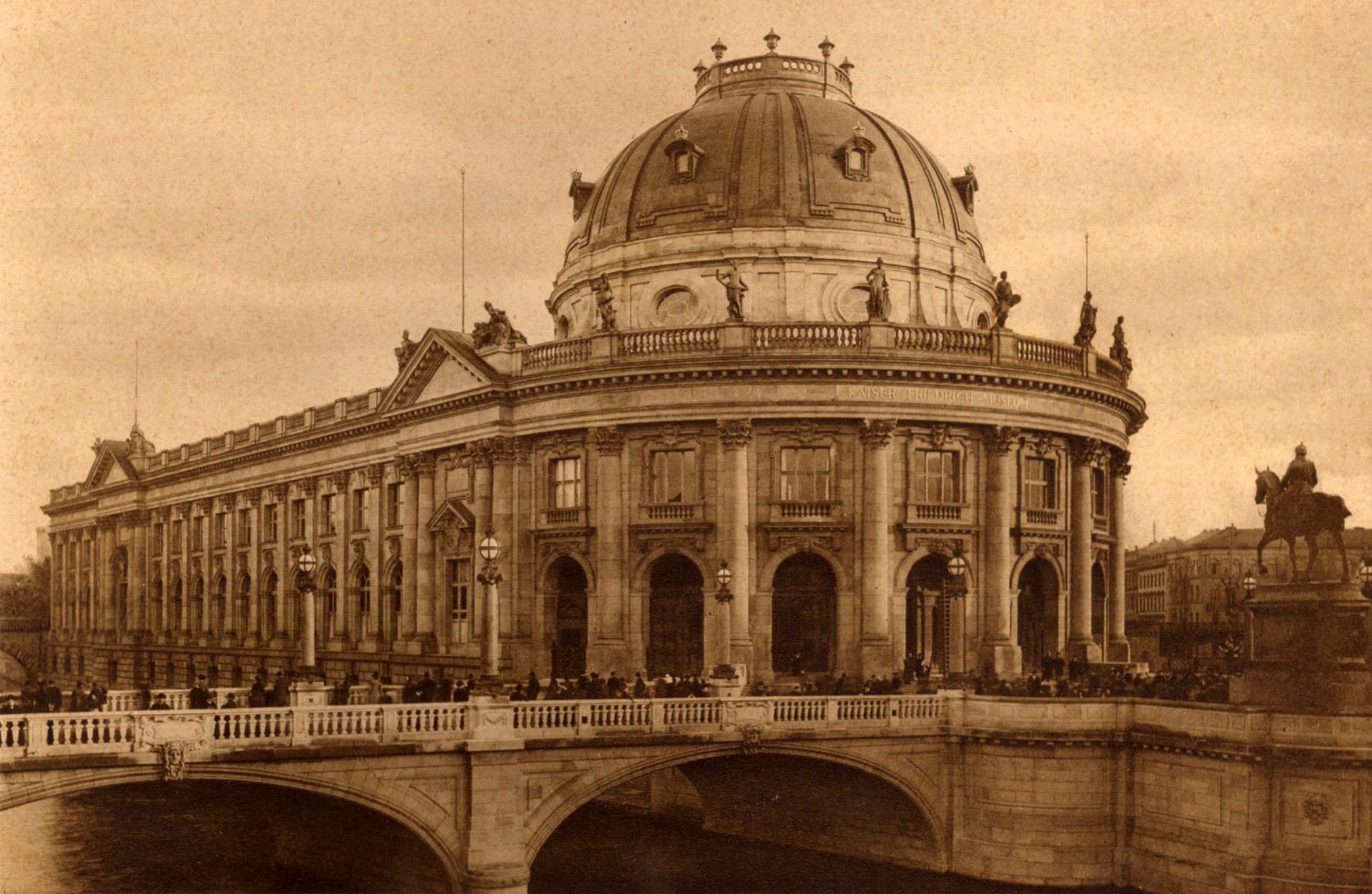 Berlin - Bode-Museum (former;y the Kaiser-Friedrich-Museum) and Monbijou Bridge around 1904